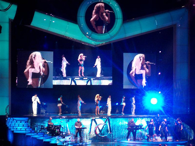 Mariah Carey performing her song "We Belong Together" on her Adventures of Mimi Tour in 2006